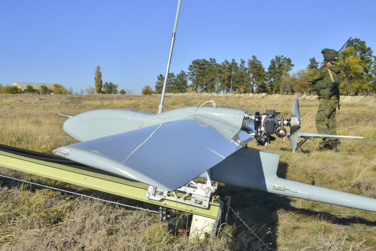 Russian 56th Separate Guards Air Assault Brigade. Granat-4 UAV.